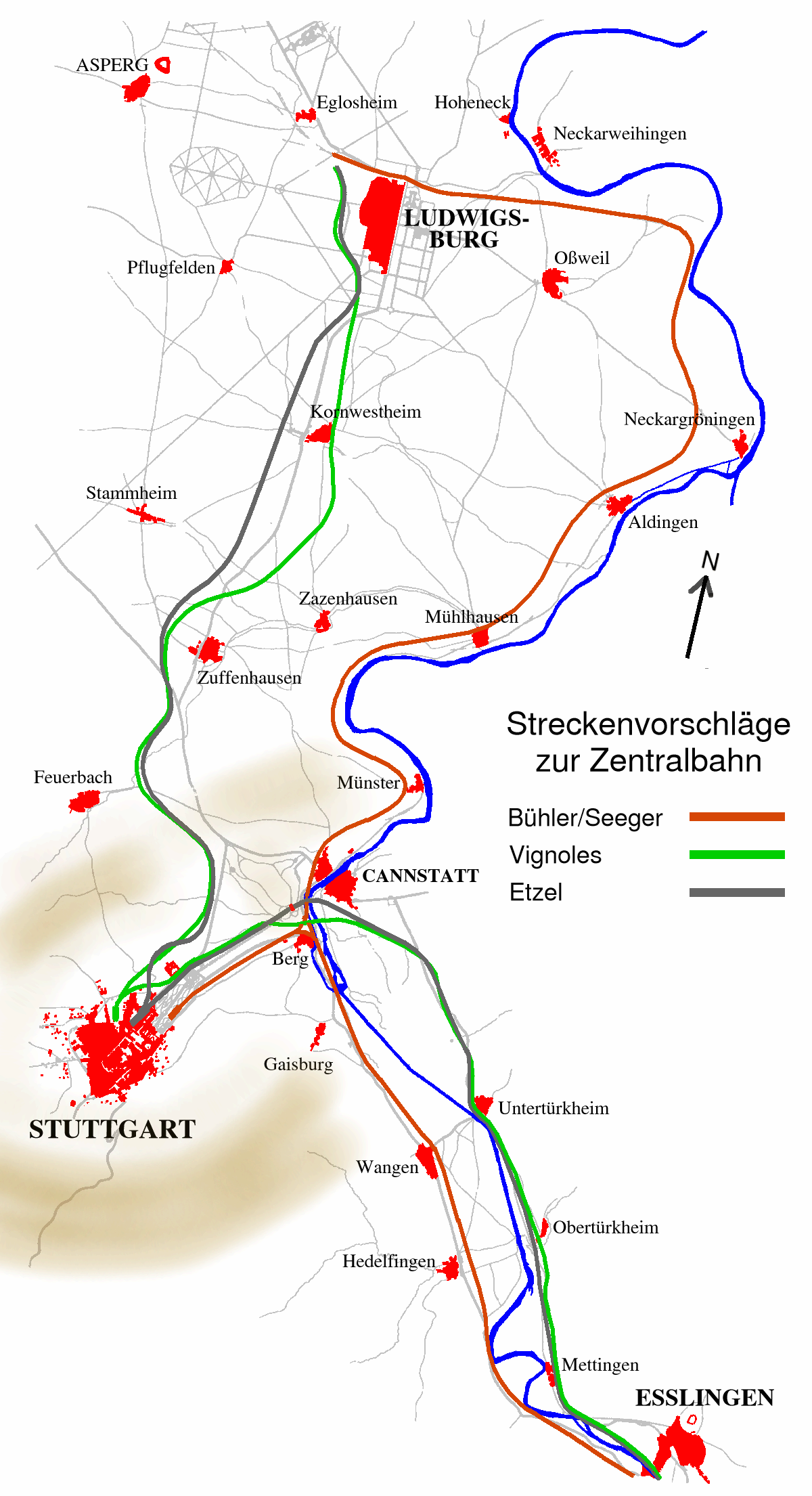 Planning variants of the central part of the railways of Württemberg